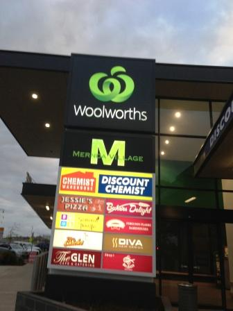 Mernda Villages Shopping Board